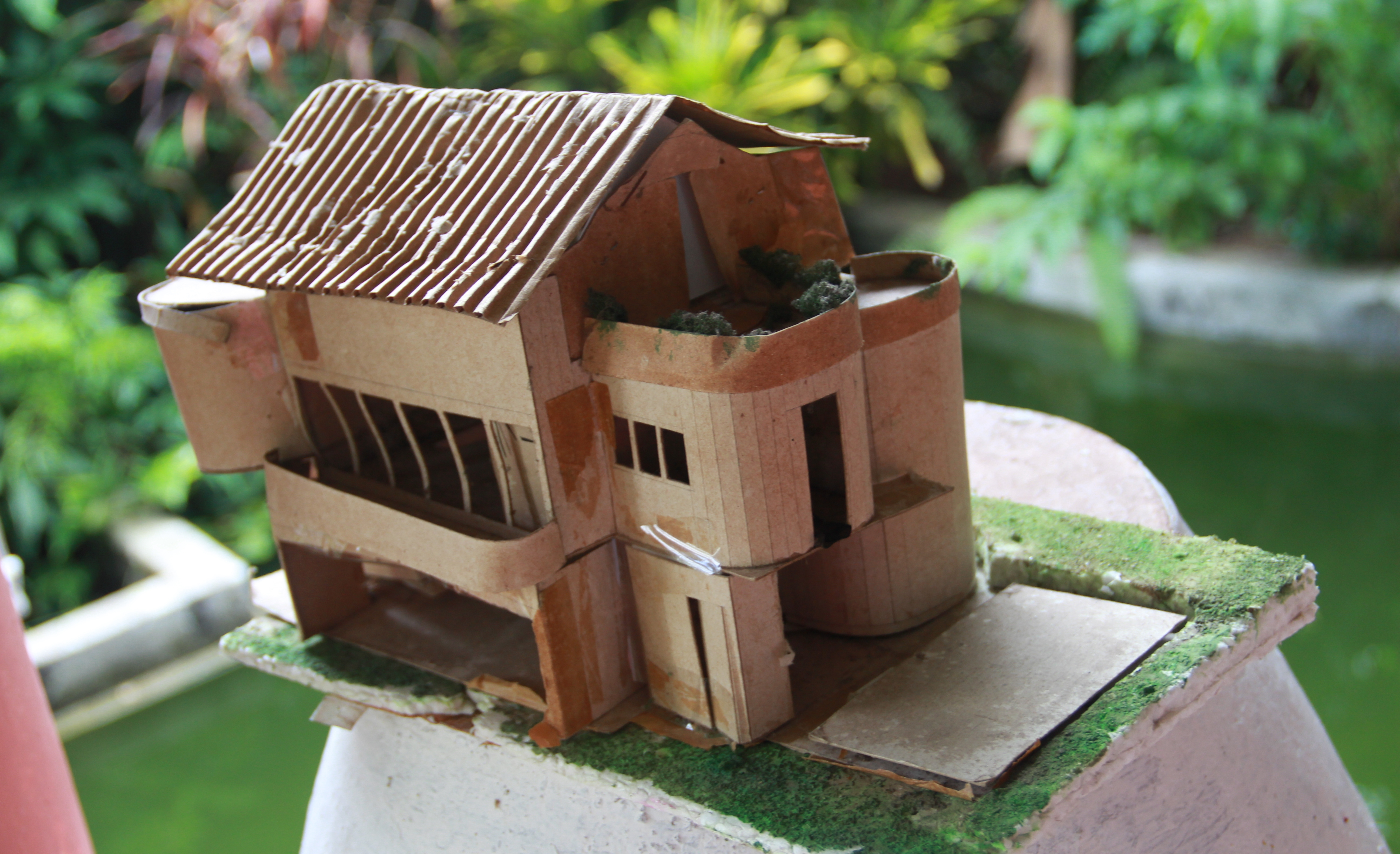 The Model of an house created by the Sri Lankan architect Minnette De Silva